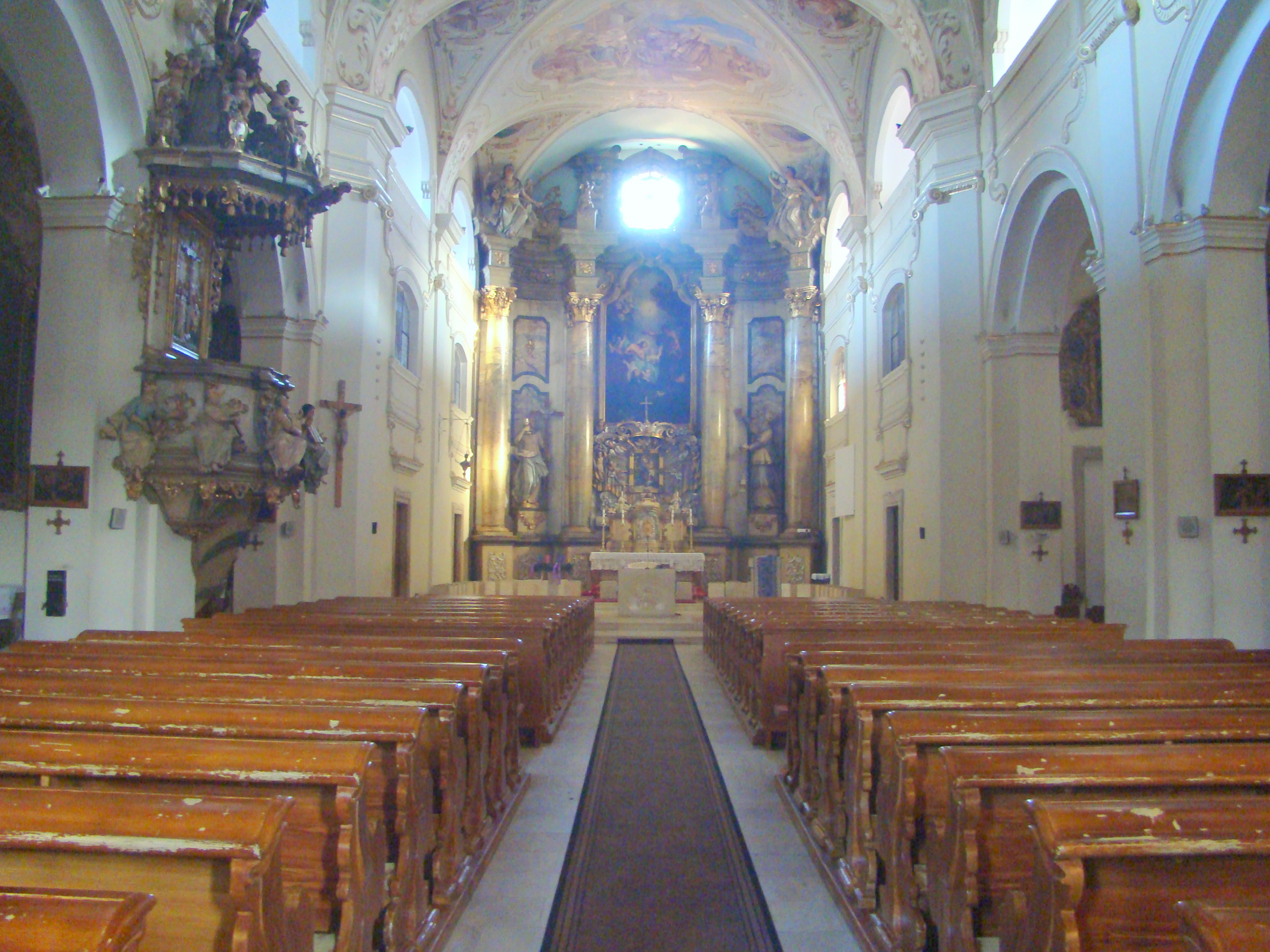 Jezuit monastery in Târgu Mureș, Mureș county, Romania